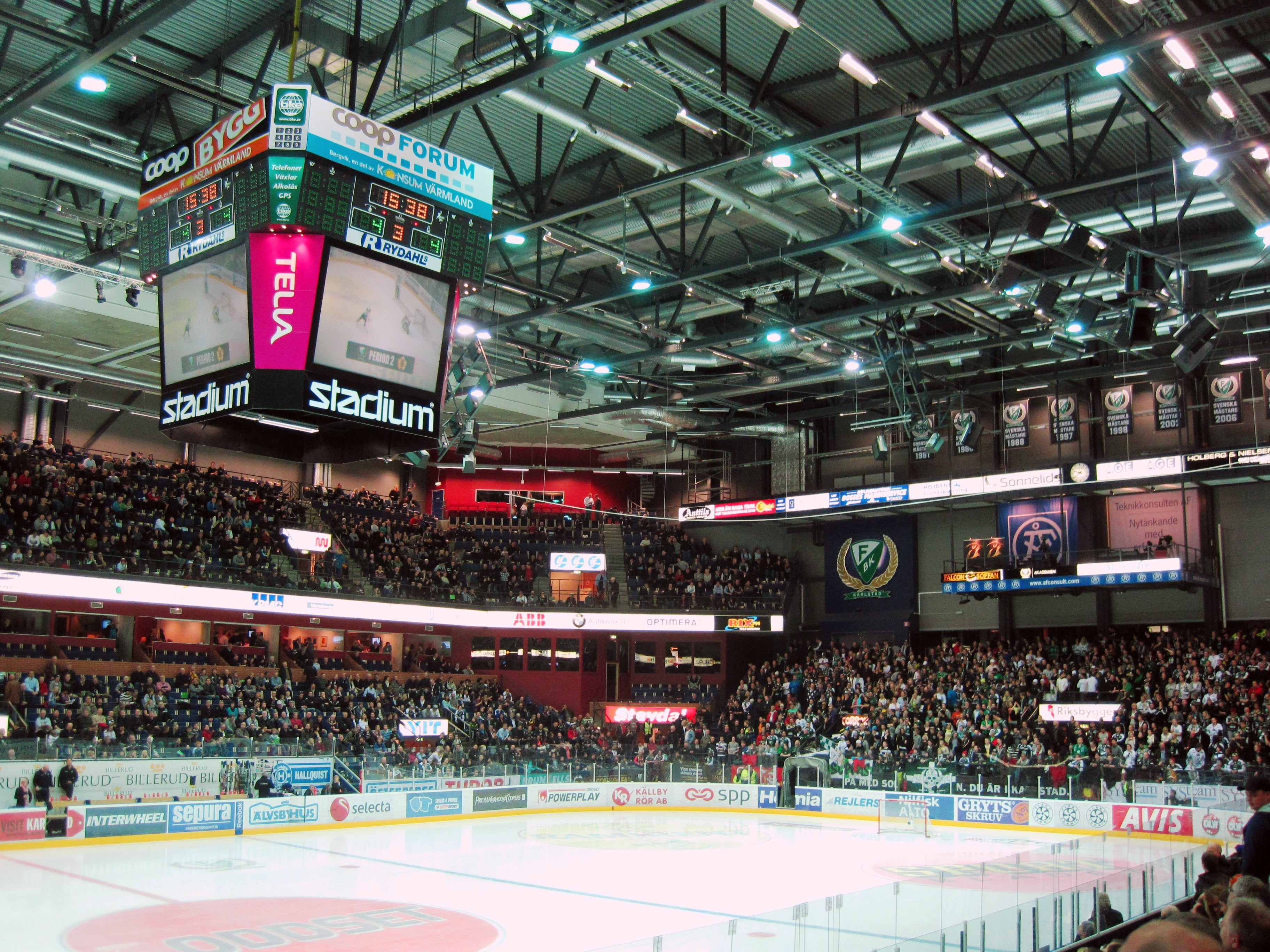 Icehockey match in Löfbergs Lila Arena during period break